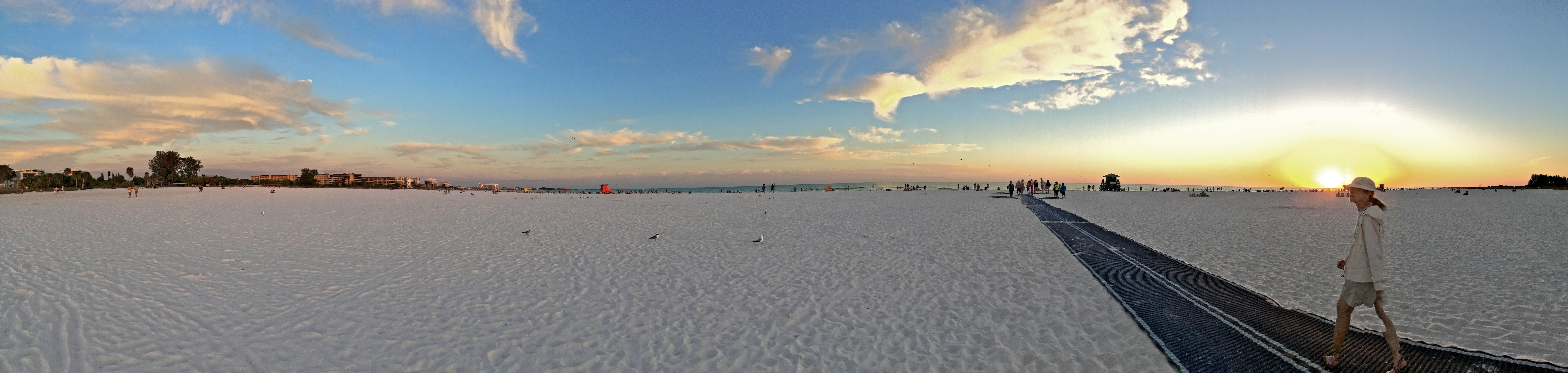 Sunset at Siesta Beach on Siesta Key